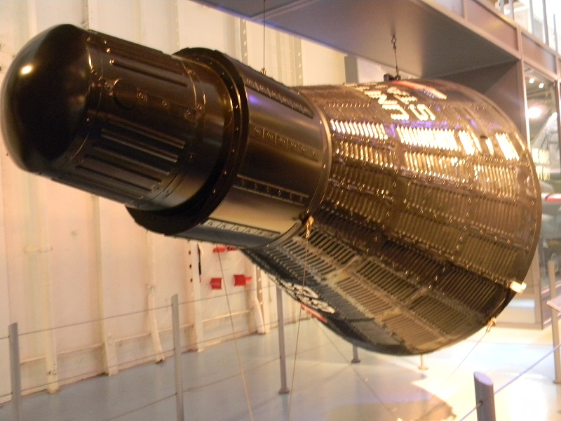 Mercury-Atlas 7 capsule replica, displayed at the Intrepid Sea-Air-Space Museum, New York